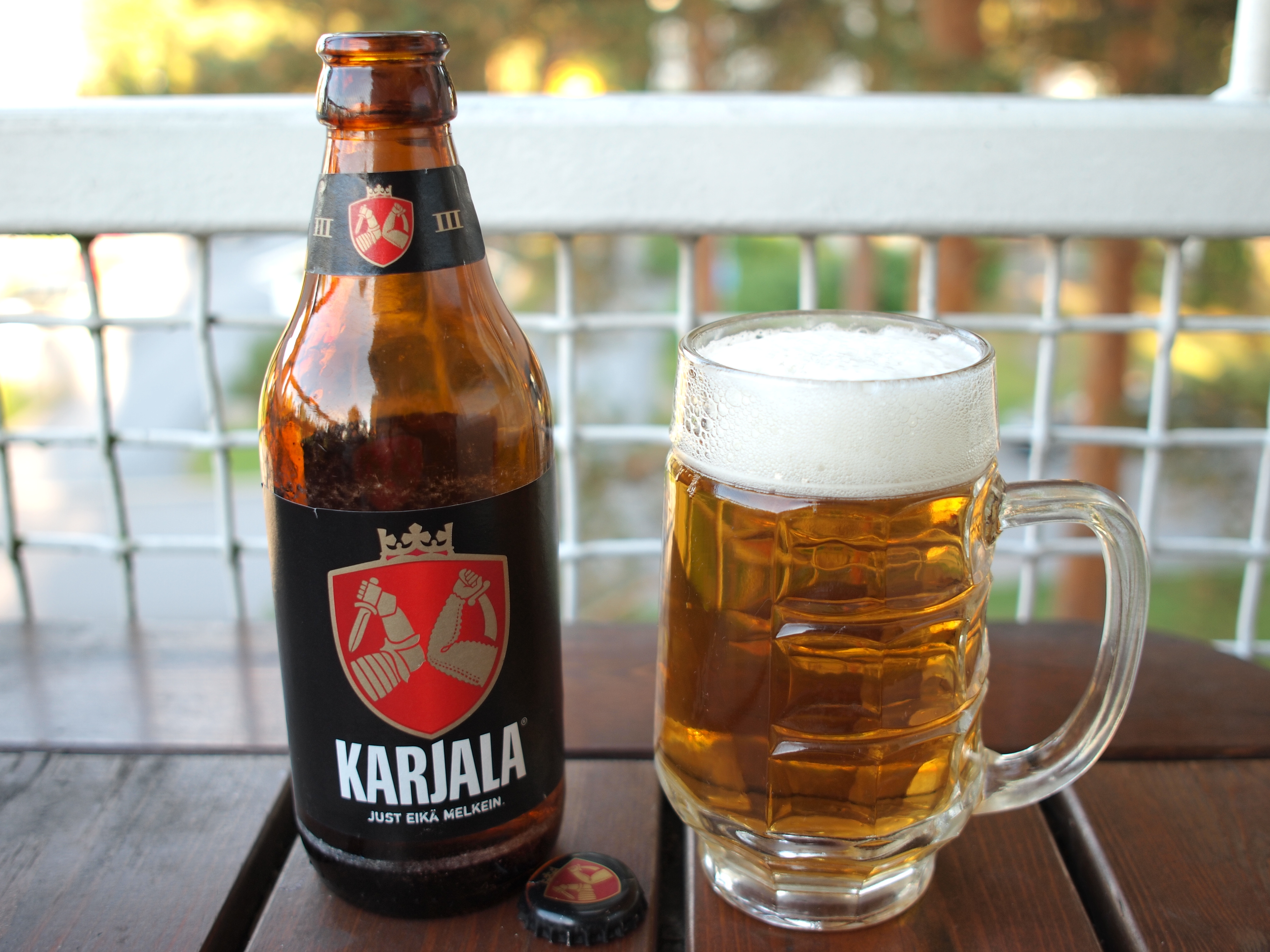 A 33-centilitre bottle of Karjala beer poured into a glass.